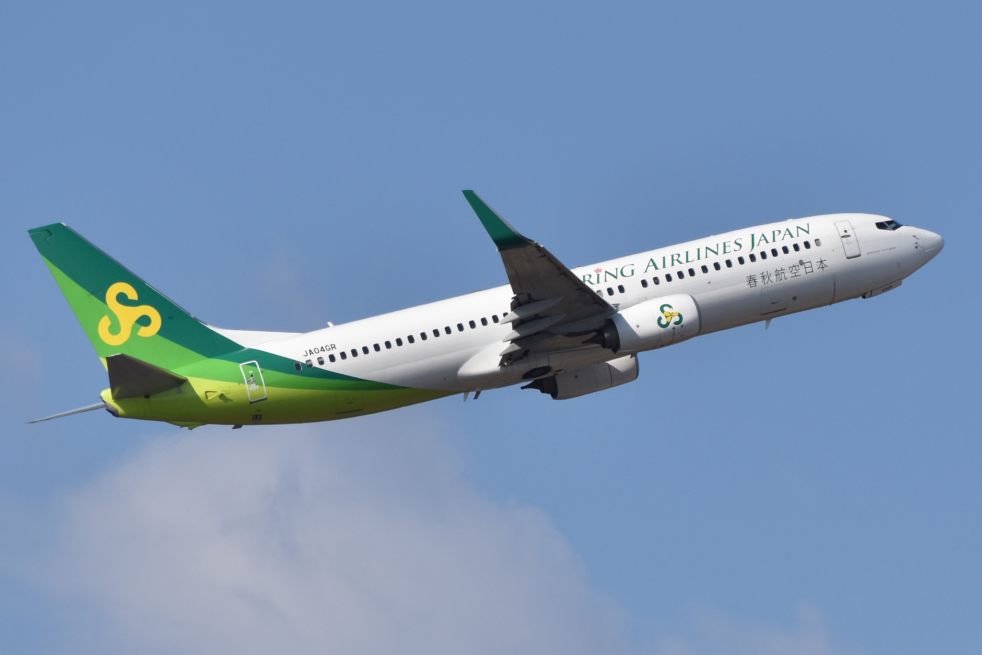 c/n 61776, l/n 6223 Built 2016 Seen departing on flight IJ1051 / SJO1051 to Harbin Narita International Airport Tokyo, Japan 17th March 2019